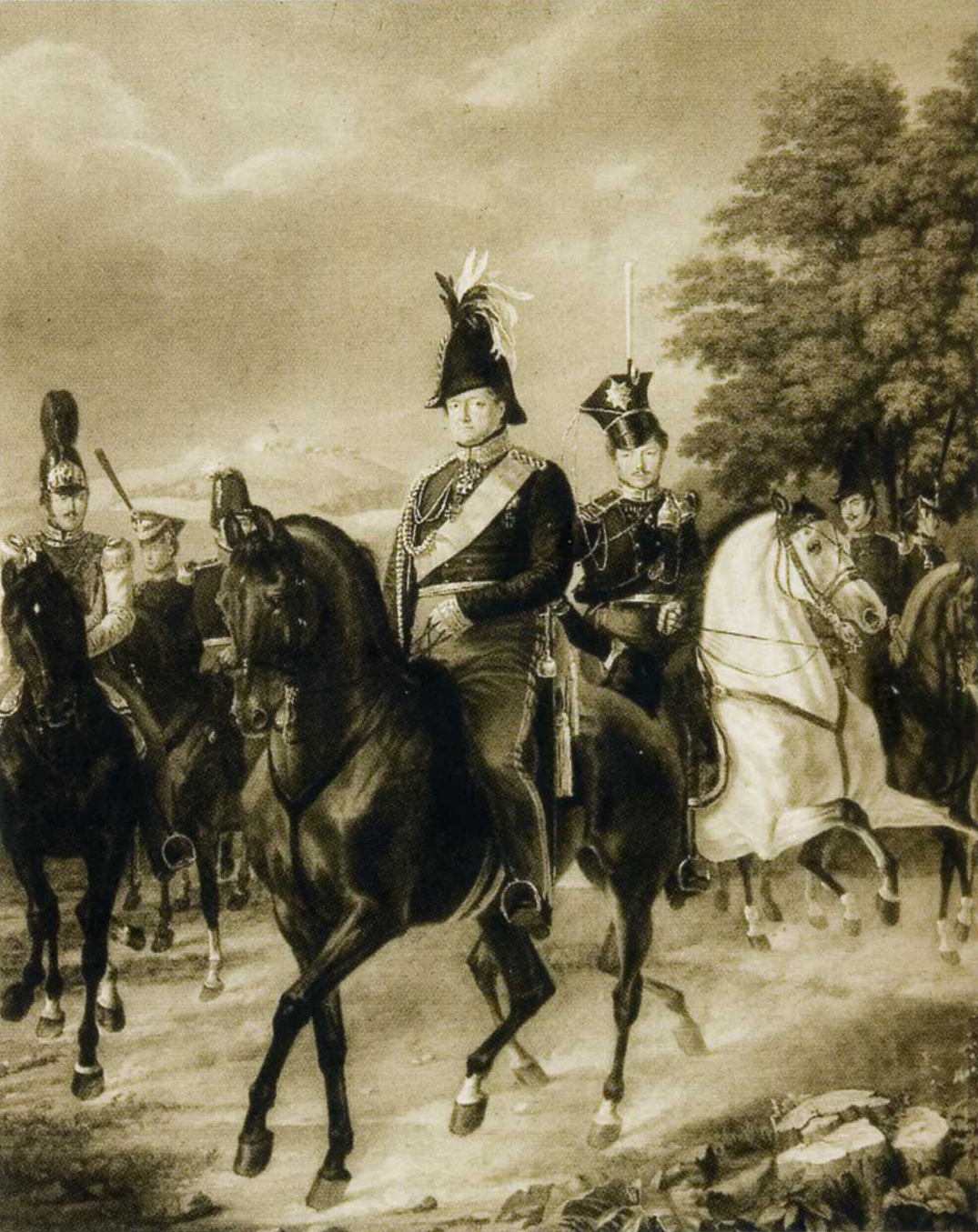 Field Marshall August Count Neithardt von Gneisenau on horseback at the head of his staff. Print following Franz Krüger (1819). Oil on canvas, 108.2 x 89.4 cm. In: Die historische Ausstellung zur Jahrhundertfeier der Freiheitskriege Breslau 1913, ed. Karl Masner and Erwin Hintze (Breslau, 1916), Table XV, plate 22 x 17 cm.